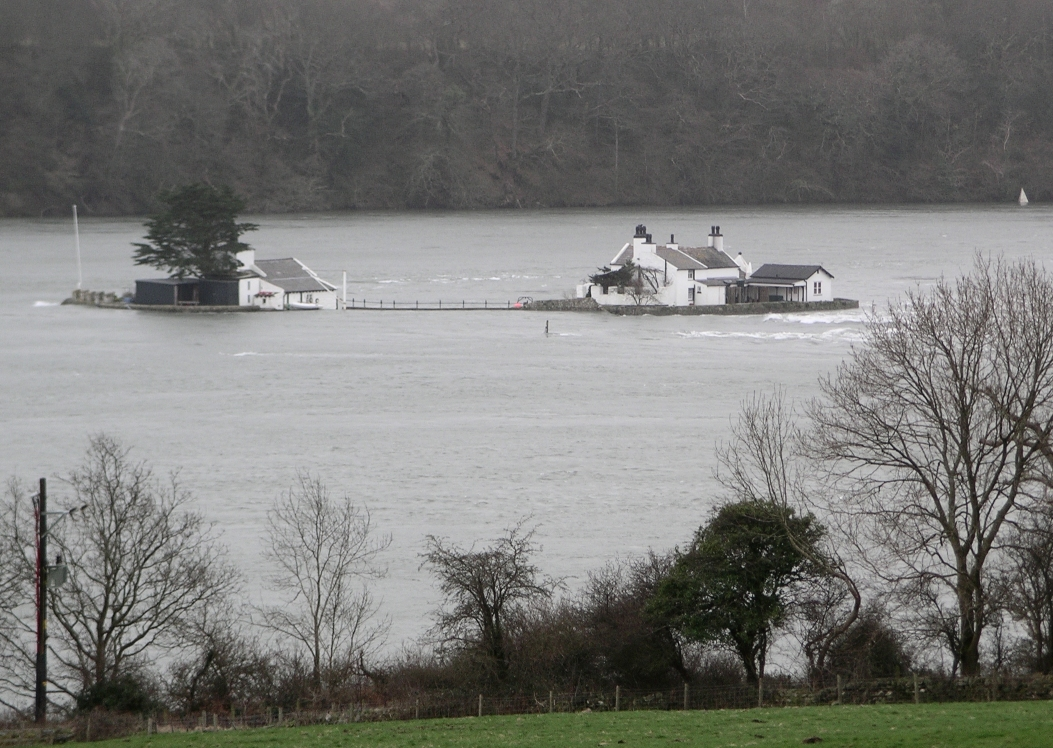 Ynys Gored Goch in the Menai Strait at high spring tide, March 30 2006 - living near the edge